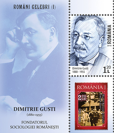 Famous Romanians, part I